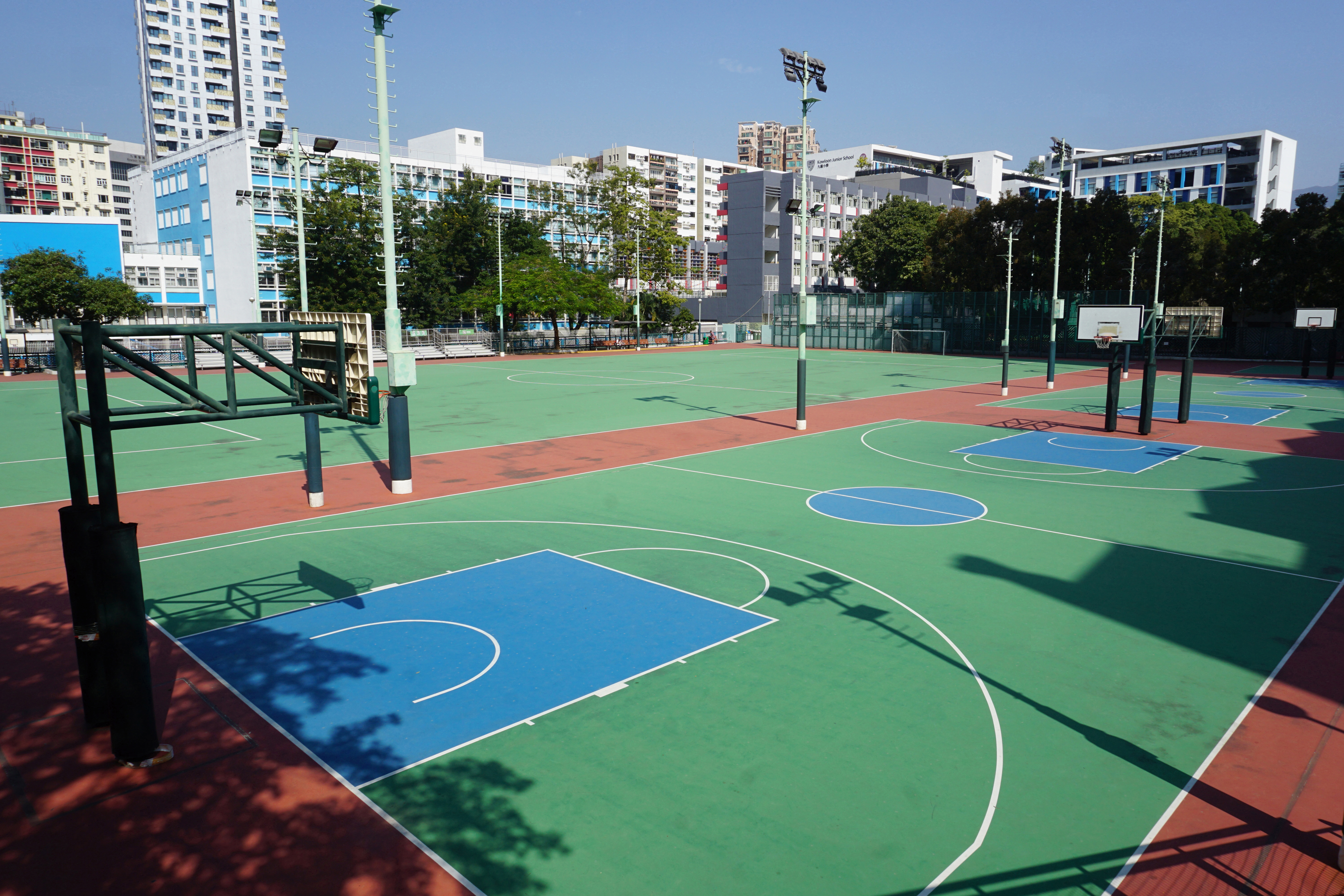 Perth Street Sports Ground in Ho Man Tin, Hong Kong.